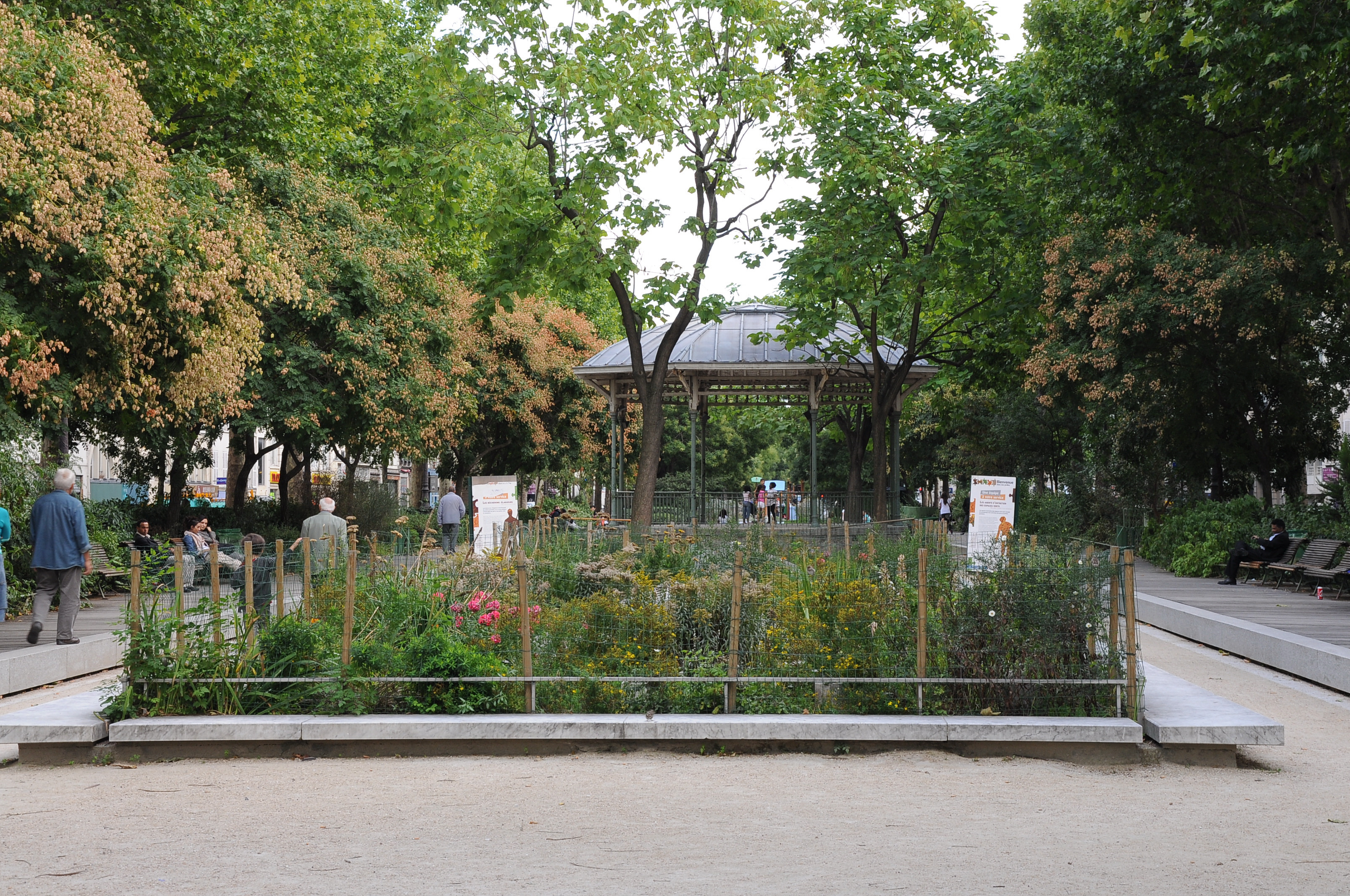 Bandstand in the Jules Ferry Square, 11th district of Paris in France.